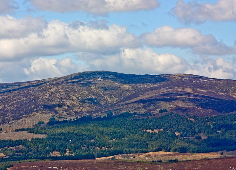 Gravale Mountain, Wicklow, Ireland; Gravale is the tallest at center-left; Carrigvore is to the right